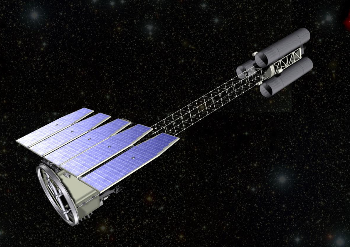 Imaging X-ray Polarimetry Explorer: X-ray space telescope of NASA